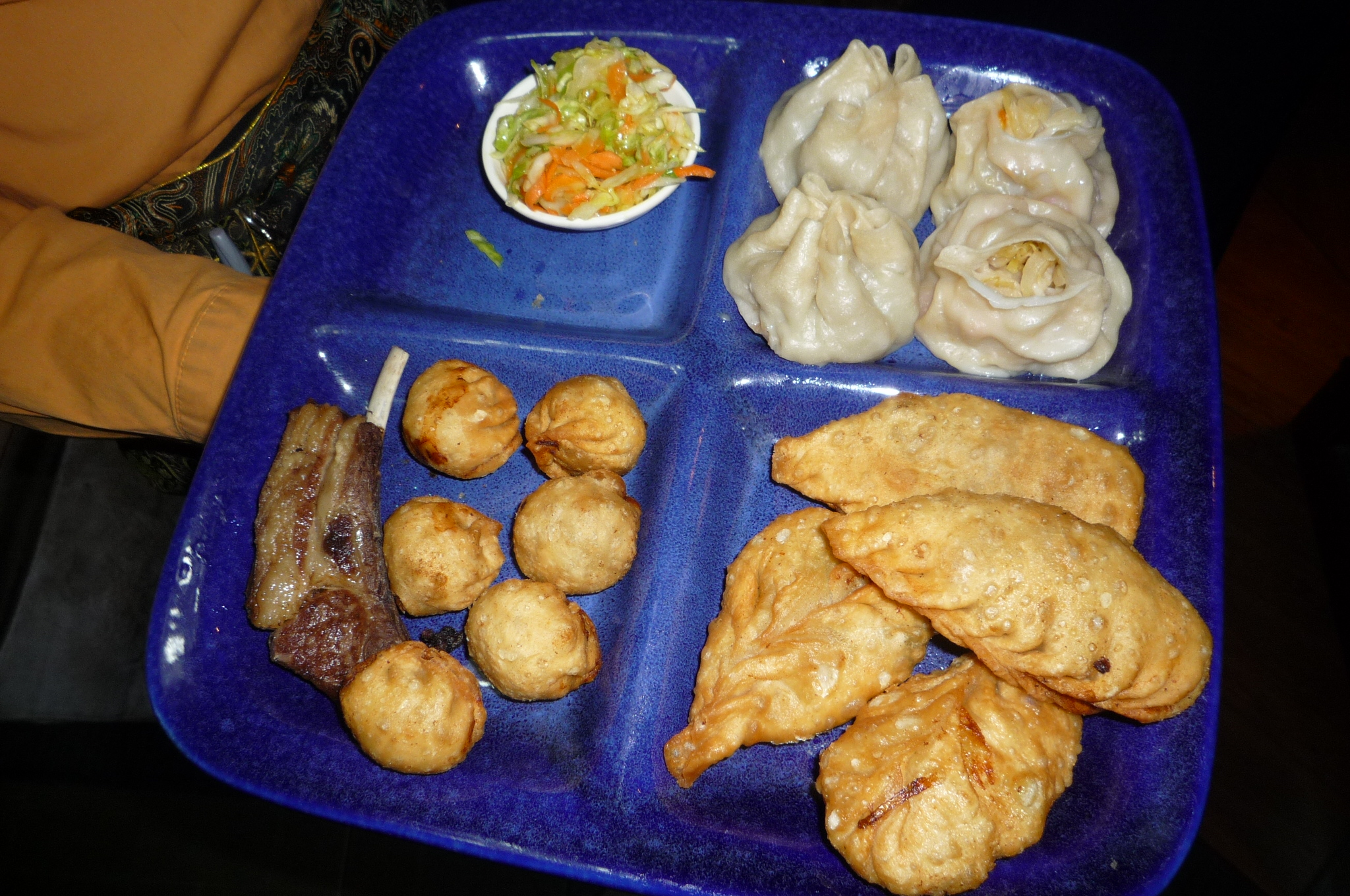 Bansh,Buuz and Chuuschuur)